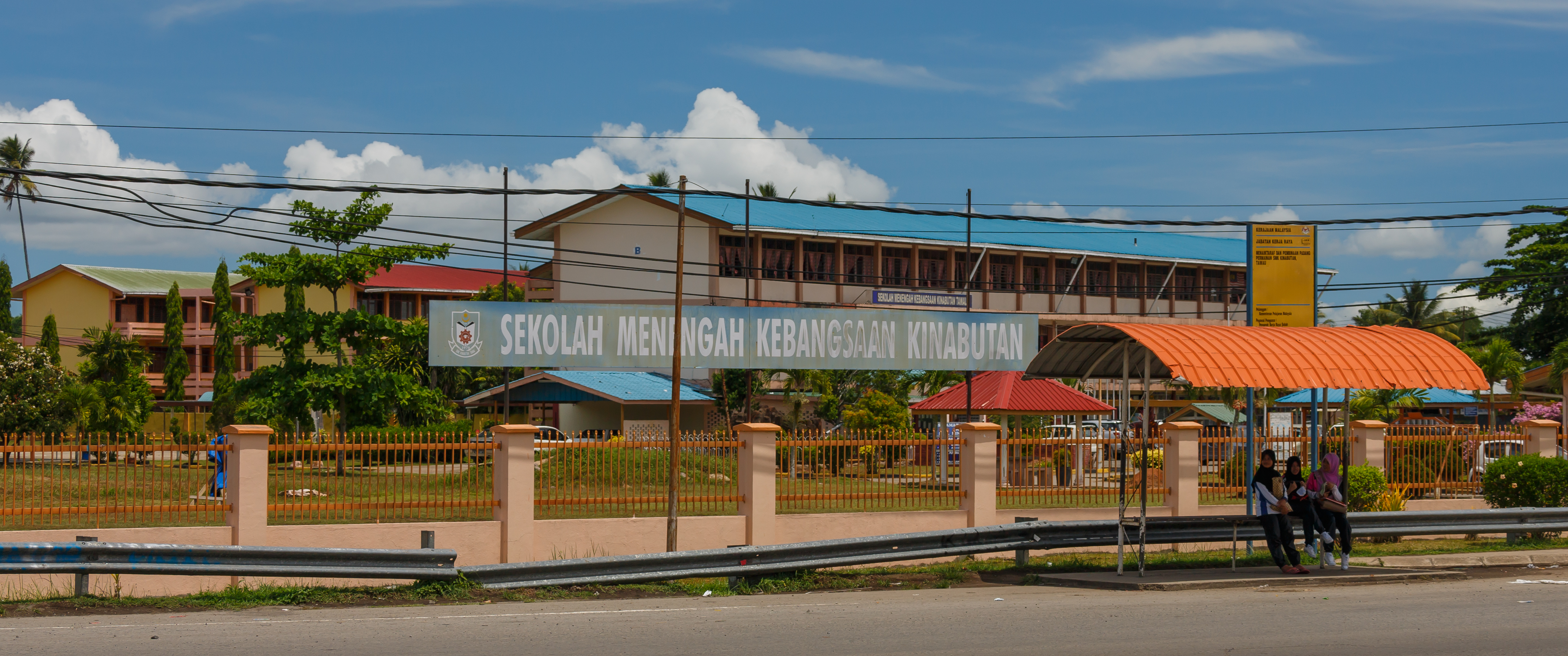 Tawau, Sabah: SMK Kinabutan, a secondary school in Kampung Kinabutan)